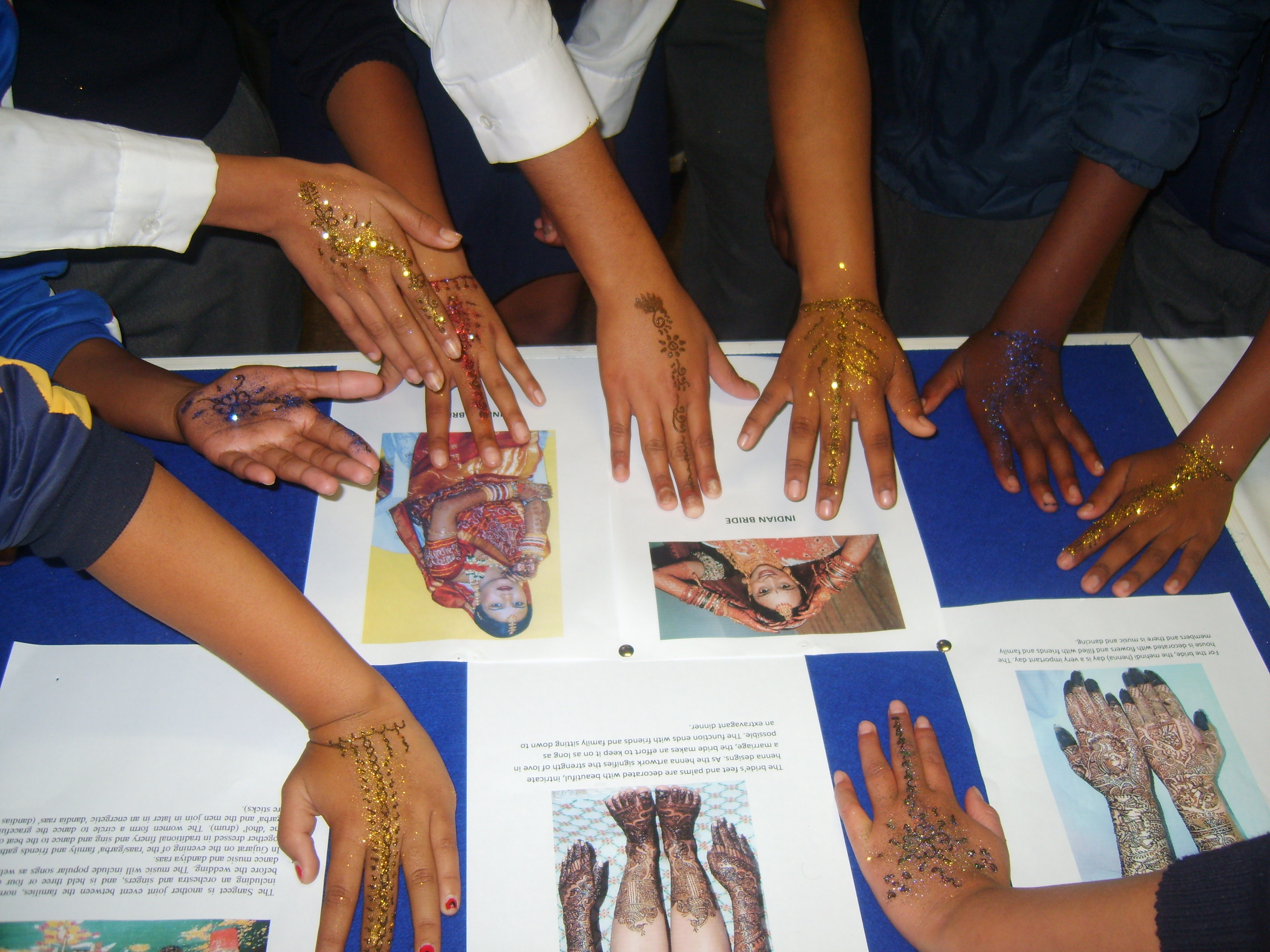 Learners participating in International Museum Day 2010. The theme was Social Harmony.